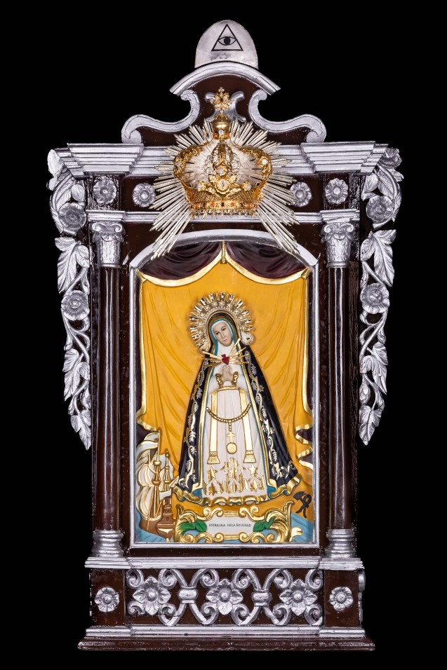 Image of Our Lady of Solitude Venerated at Tambo, Buhi, Camarines Sur